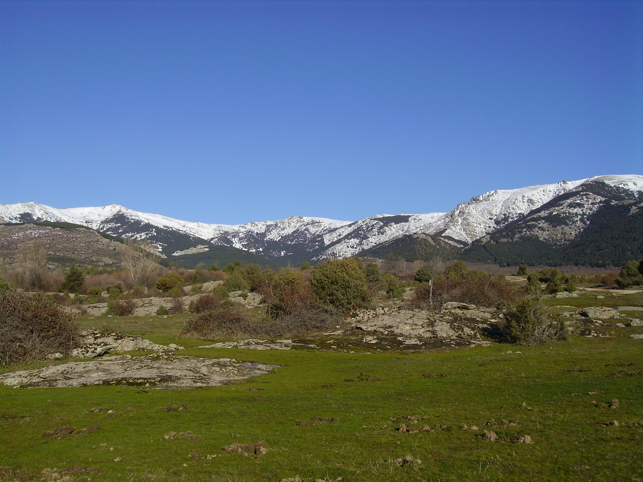 View of the mountains that surround the Hueco de San Blas, in the Sierra de Guadarrama, from Soto del real, Madrid. From left to the right: Monte de las Buitreras(the little and reddish one), Alto de Matasanos, Asomate de Hoyos, Loma de los Bailanderos, and La Najarra.